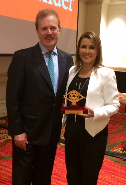 Iris prize for Marcella Pulido